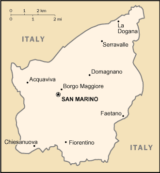 Map of San Marino.